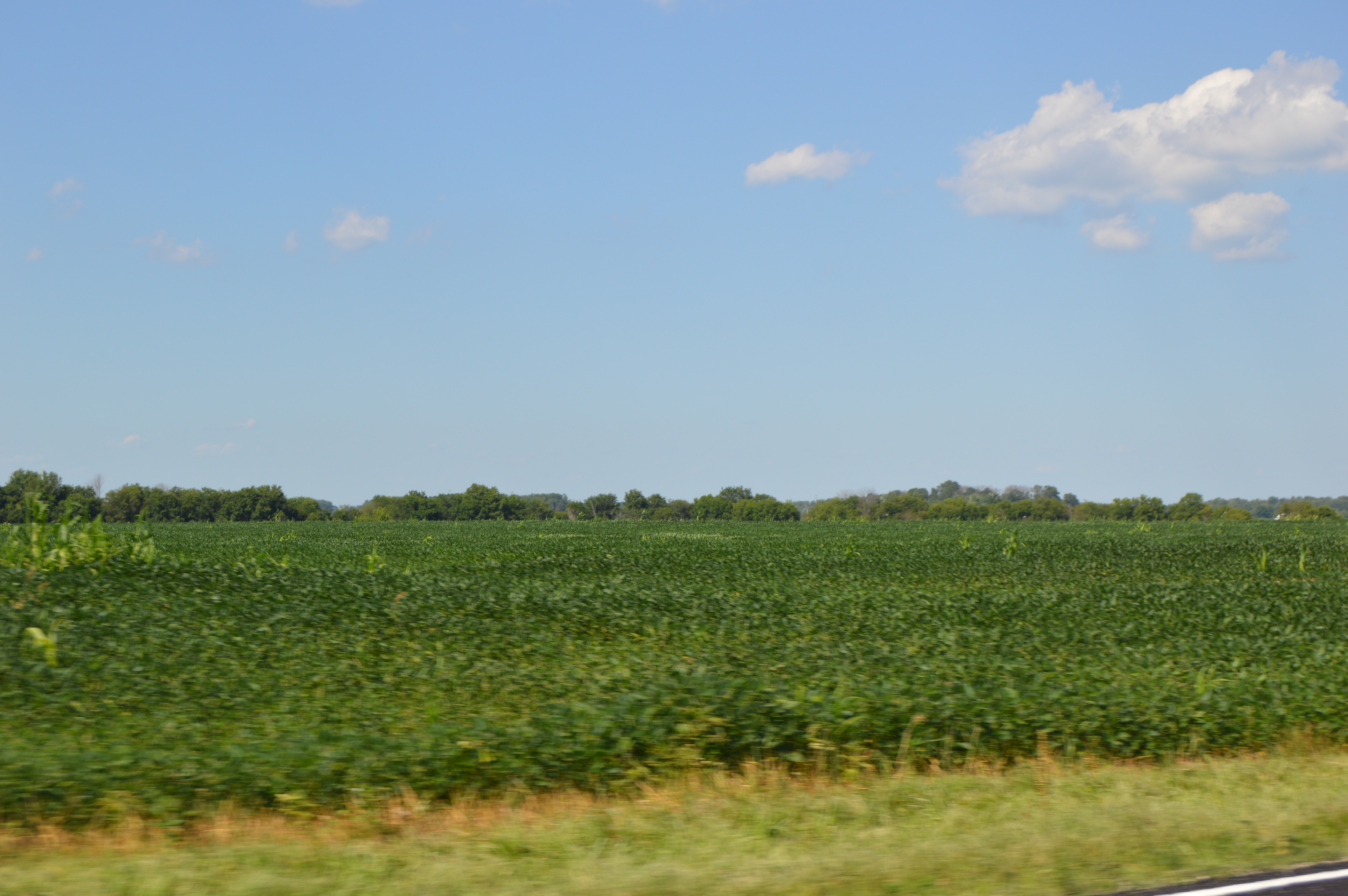 Soybean field along the northern side of State Road 18 just west of the U.S. Route 31 intersection in Deer Creek Township, Miami County, Indiana, United States.